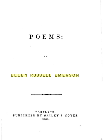 Poems, by Ellen Russell Emerson